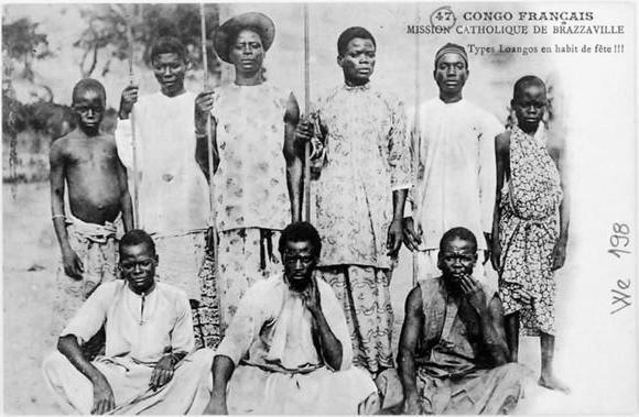 People from Loango in holidays clothes